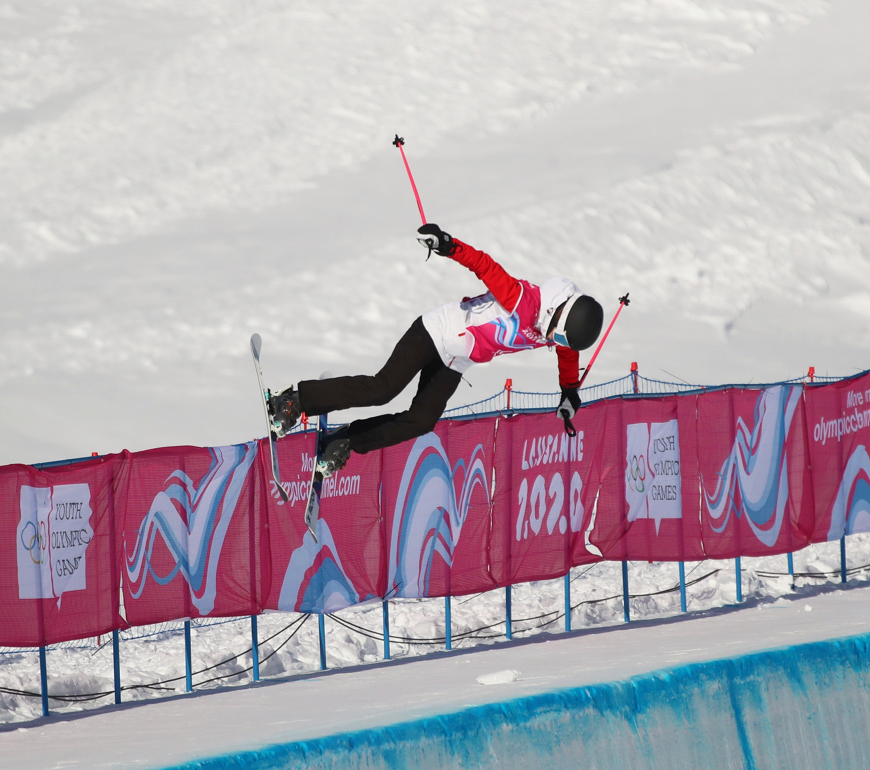 2nd qualification run of Freestyle skiing – Women's Halfpipe at the 2020 Winter Youth Olympics in Lausanne on 20 January 2020.